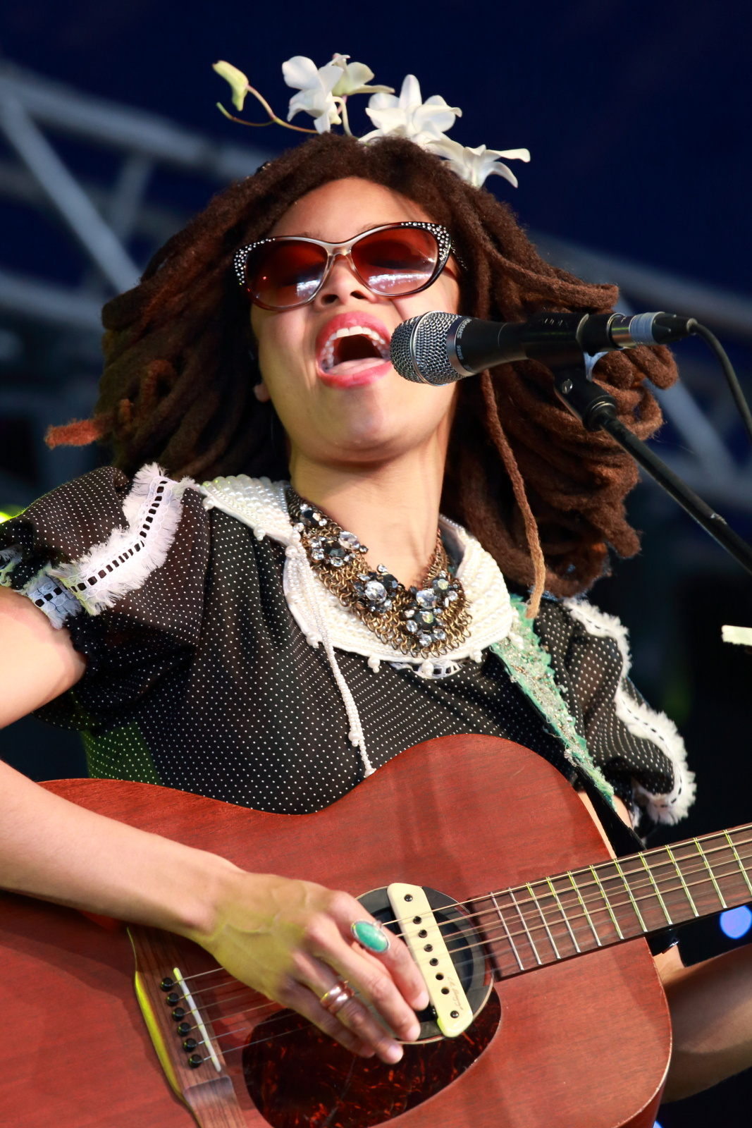 Valerie June performs at Byron Bay Bluesfest, 2014.